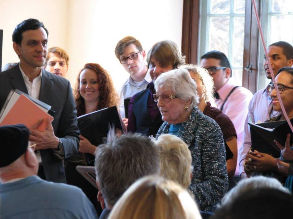 Gladys Nordenstrom Krenek with the SACRA/PROFANA chorus at the soundON music festival in La Jolla, CA. January 12th, 2014.